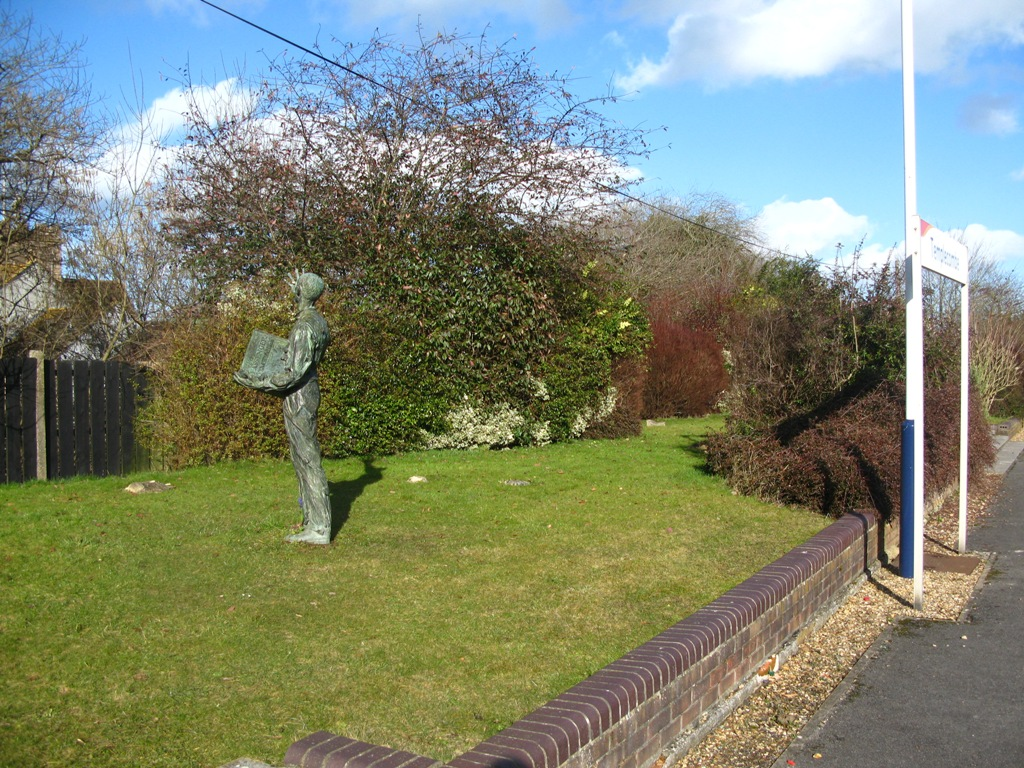 Part of Templecombe railway station, Somerset, England. On the left is Tempus Fugit, which is both a sculpture and sundial. The bronze statue is of a railwayman consulting the British Rail timetable, some of the pages of which have blown away and landed on the grass. The statue forms the gnomon of the sundial; the pages on the ground mark the hours.